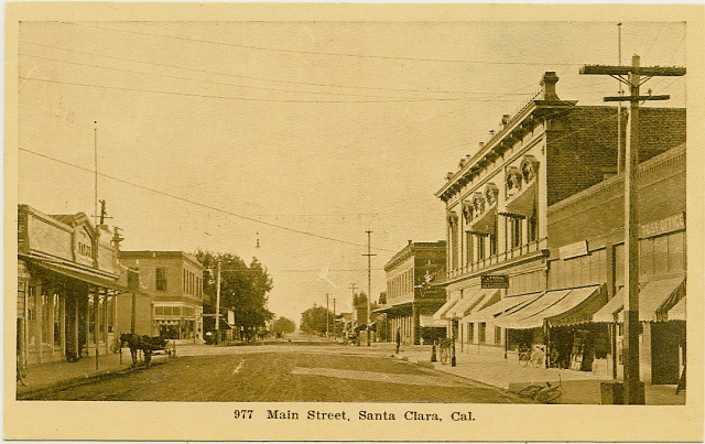 Postcard: Main Street, Santa Clara, about 1910. Store Web page states: "Original, circa 1910 postcard. Caption reads "Main Street, Santa Clara, Calif". Card is postally unused"